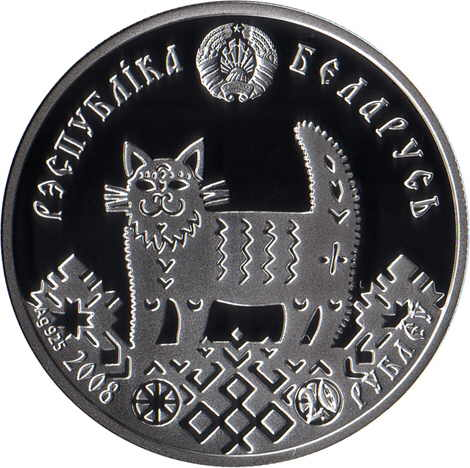 Belarusian silver 20 roubles 2008. House-Warming.